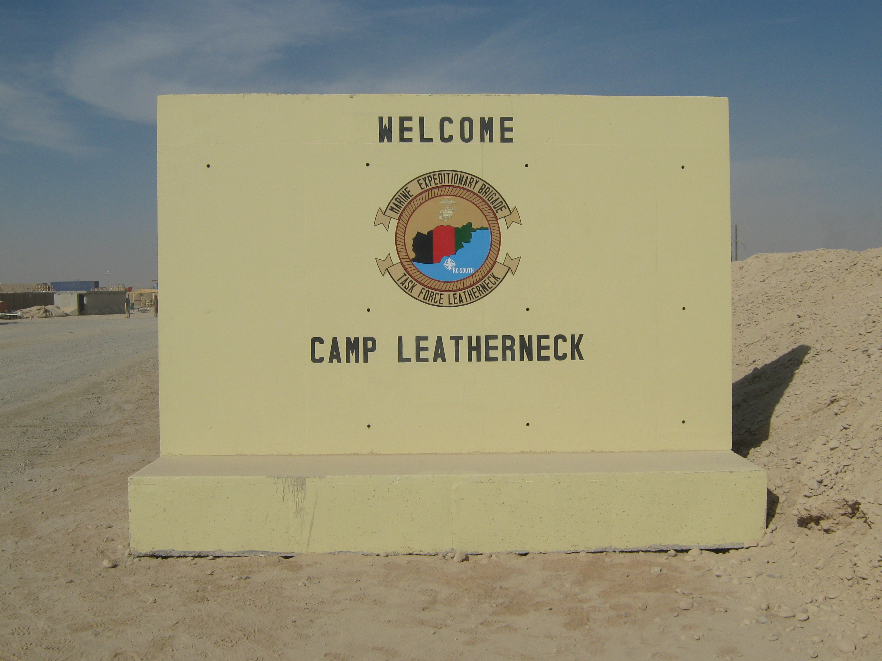 Sign at entrance to Camp Leatherneck, Afghanistan on the approach from Camp Bastion. This is the original sign at Camp Leatherneck.